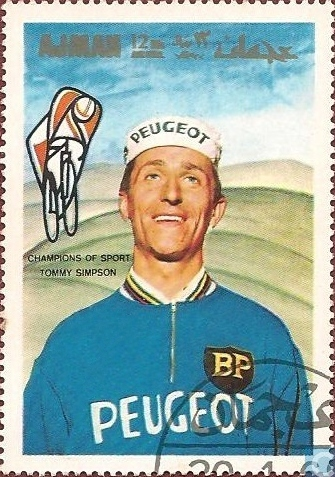 Tom Simpson (cyclist)